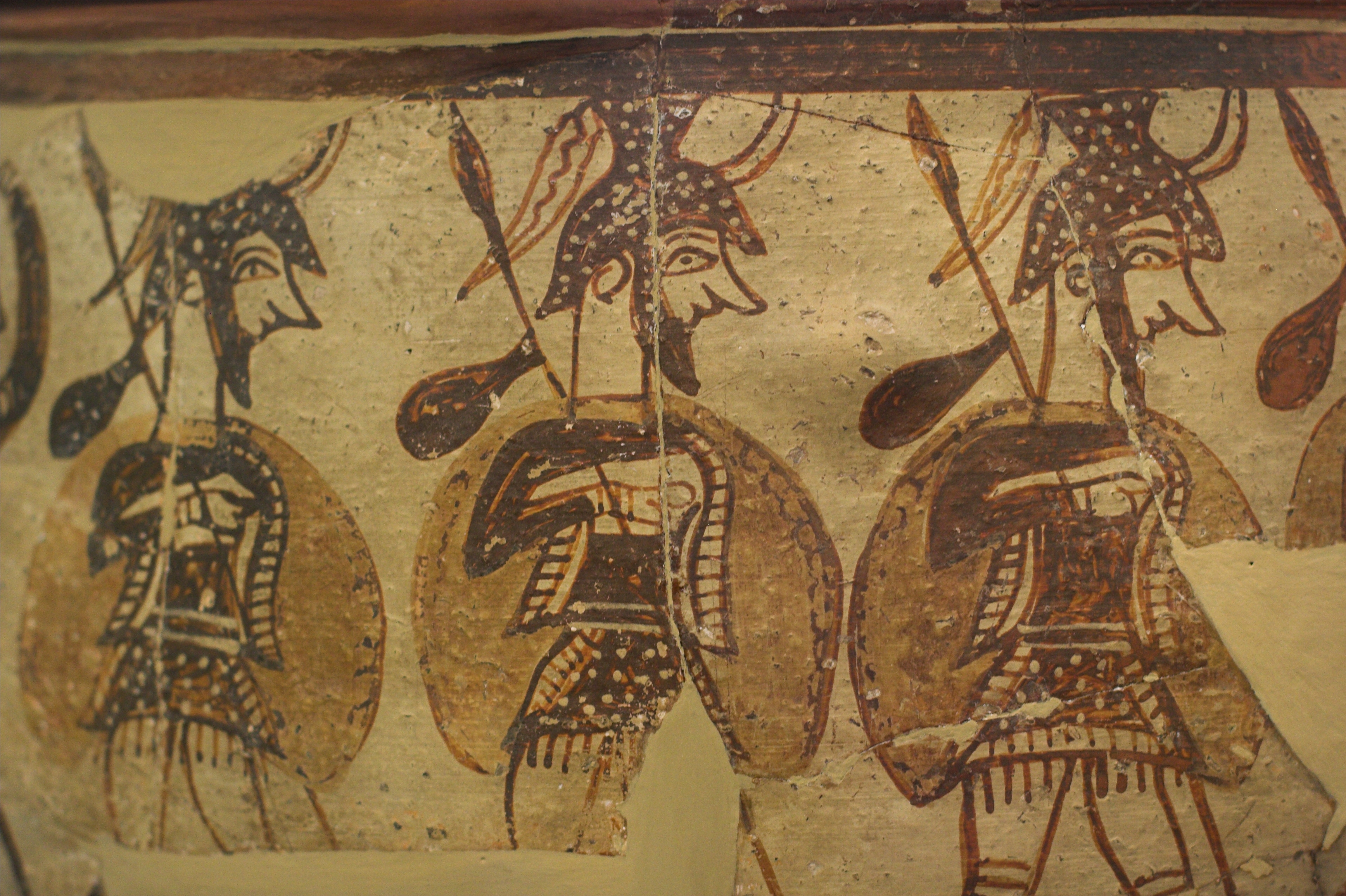 Marching soldiers, painted on the crater of Mycenae, Late Bronze Age, 12 century BC, National Archaeological Museum of Athens, N 1246. Detail.